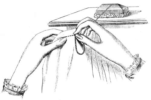 Illustration for section "Plain sewing" in Encyclopedia of Needlework. Fig. 2. Position of the hands.